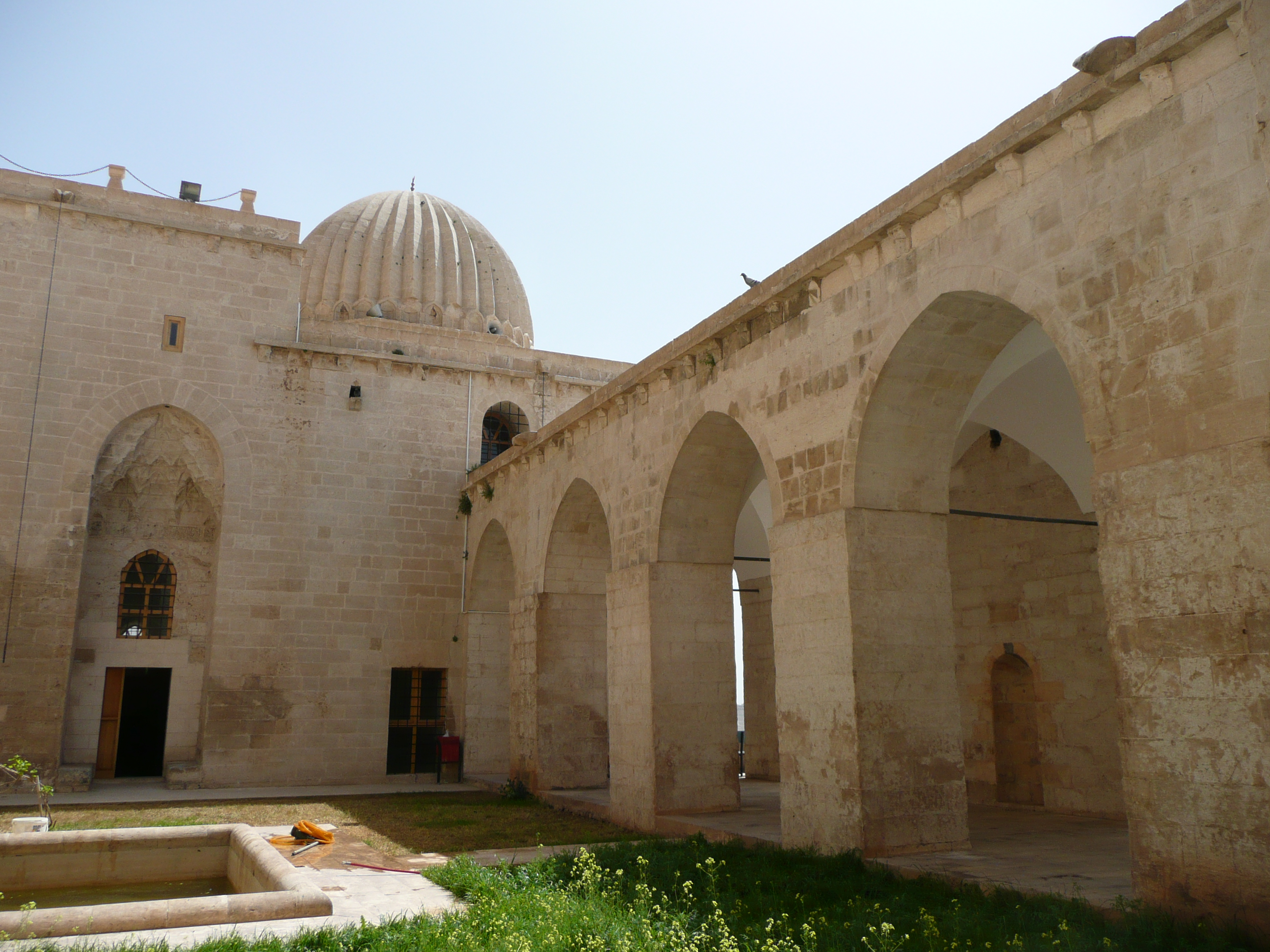 Photographs from Mardin, Turkey